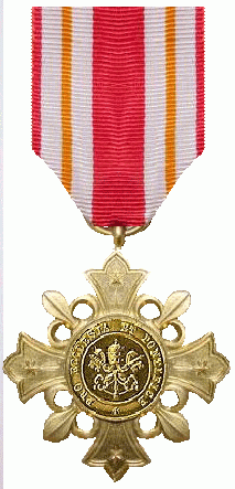 Cross Pro Ecclesia et Pontificae, keerzijde